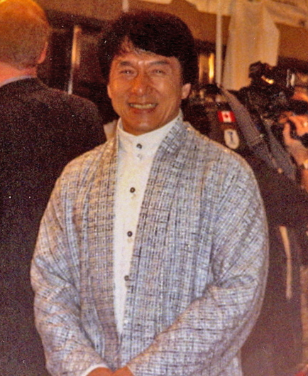 Jackie Chan at the premiere of The Myth in Toronto International Film Festival 2005.